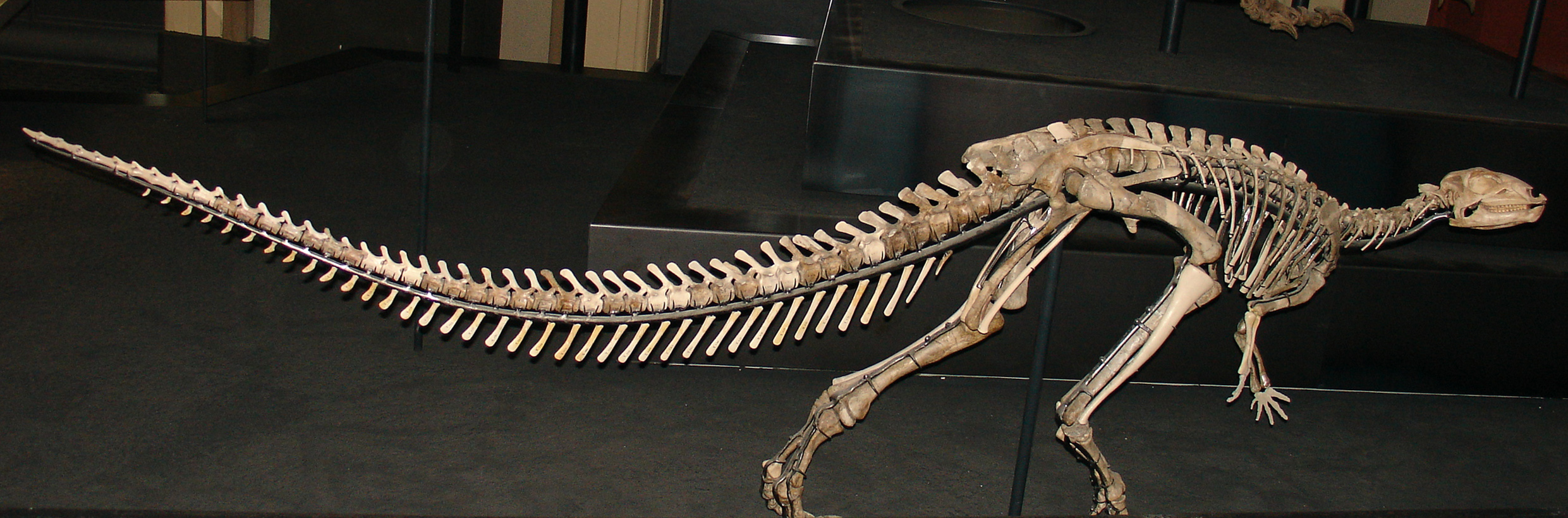 Dryosaurus lettowvorbecki (syn. Dysalotosaurus lettowvorbecki) – reconstructed skeleton. The exhibit from the Museum of Natural History in Berlin (Museum für Naturkunde)